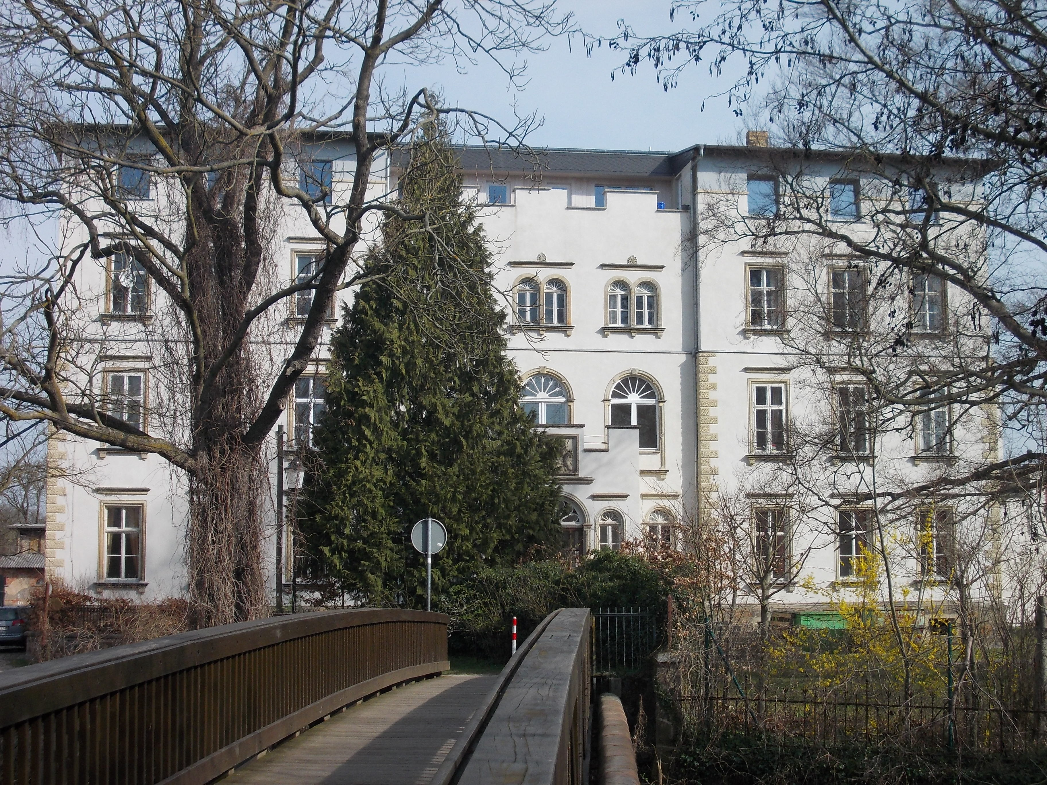 Lützschena Castle (Leipzig, Saxony)